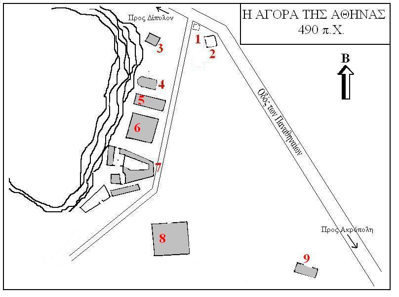 The Agora of Athens in 490 B.C.